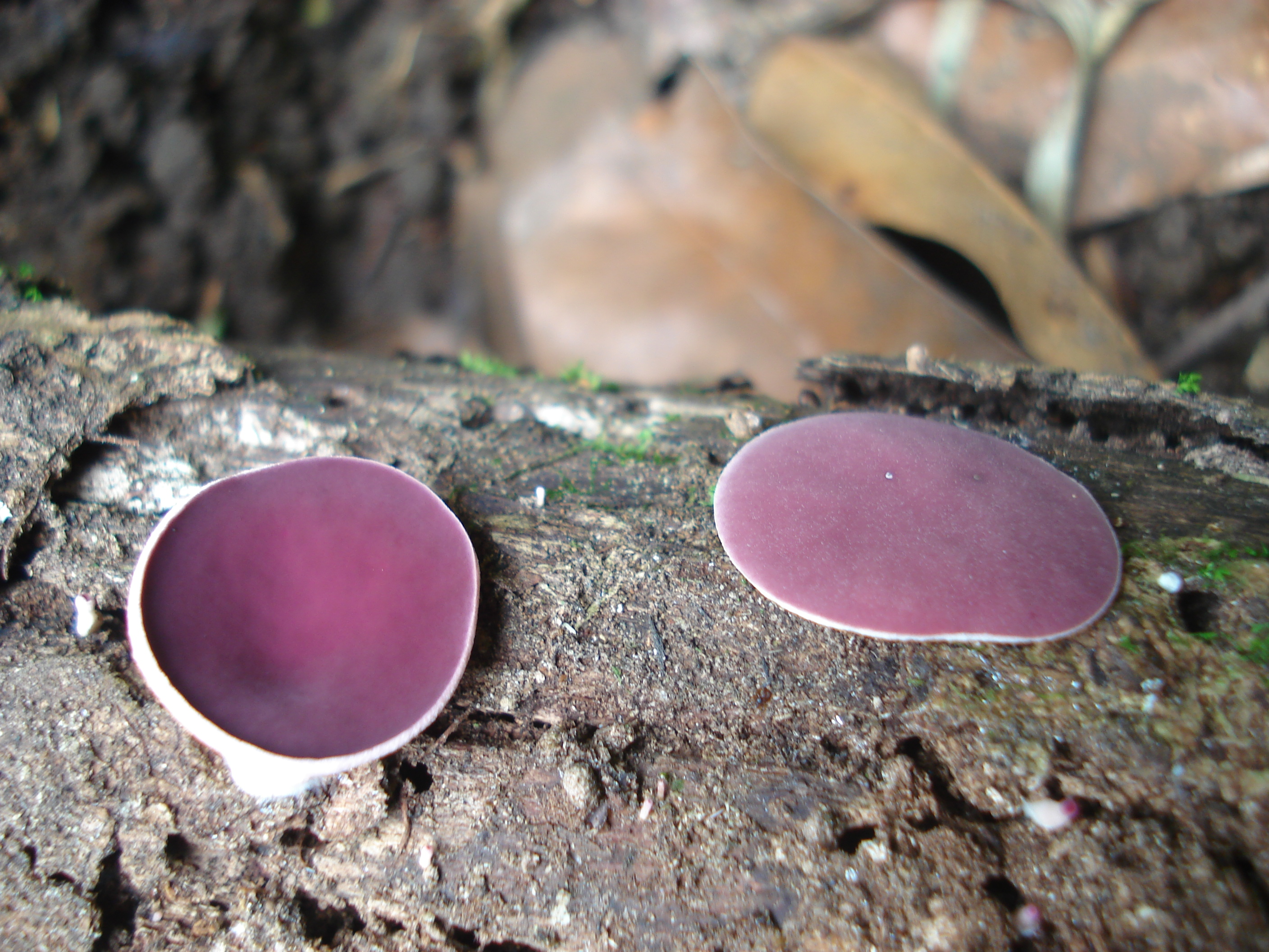 Fruit bodies of the ascomycete fungus Phillipsia domingensis Berk. Photographed in Amatlan de los Reyes, Veracruz, Mexico.